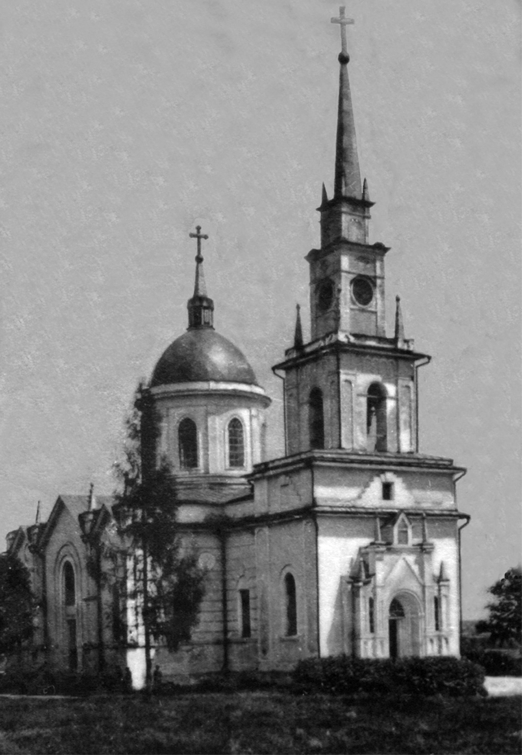 Intercession Church in the village Volokytin Putivl district of Sumy region. General view of the church. Photo late 19th century.